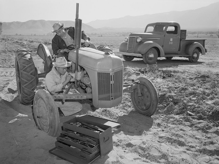 Ford-Ferguson 9N tractor repair 1943. Driver Benji Iguchi, Mechanic Henry Hanawa. The front and rear tires were moved out significantly from their original orientation to drive between rows of crops.